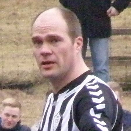 Óli Johannesen is a Faroese football player, who has played 83 matches for the Faroe Islands National Football Team. He comes from Tvøroyri and has played for TB Tvøroyri mostly. He had withdraw from fooball on high level, but in 2012 he made a come-back, when he joined the best team of TB Tvøroyri, which is back in the best division after some years in the second best tire. Føroyskt: Óli Johannesen er ein føroyskur fótbóltsleikari, sum spælir við TB. Hann er eisini fyrrverandi landsliðsleikari og hevur spælt 83 dystir fyri A-landsliðið hjá Føroyum. Hann spældi sum verjuleikari. Nú er TB aftur í bestu deildini, og Óli er partur av hópinum. Myndin varð tikin í fyrsta landskappingardysinum hjá TB, sum var móti Víkingi. Dysturin varð leiktur vesturi á Eiðinum í Vági, tí nýggi vøllurin í Stópunum í Trongisvági ikki var liðugur.